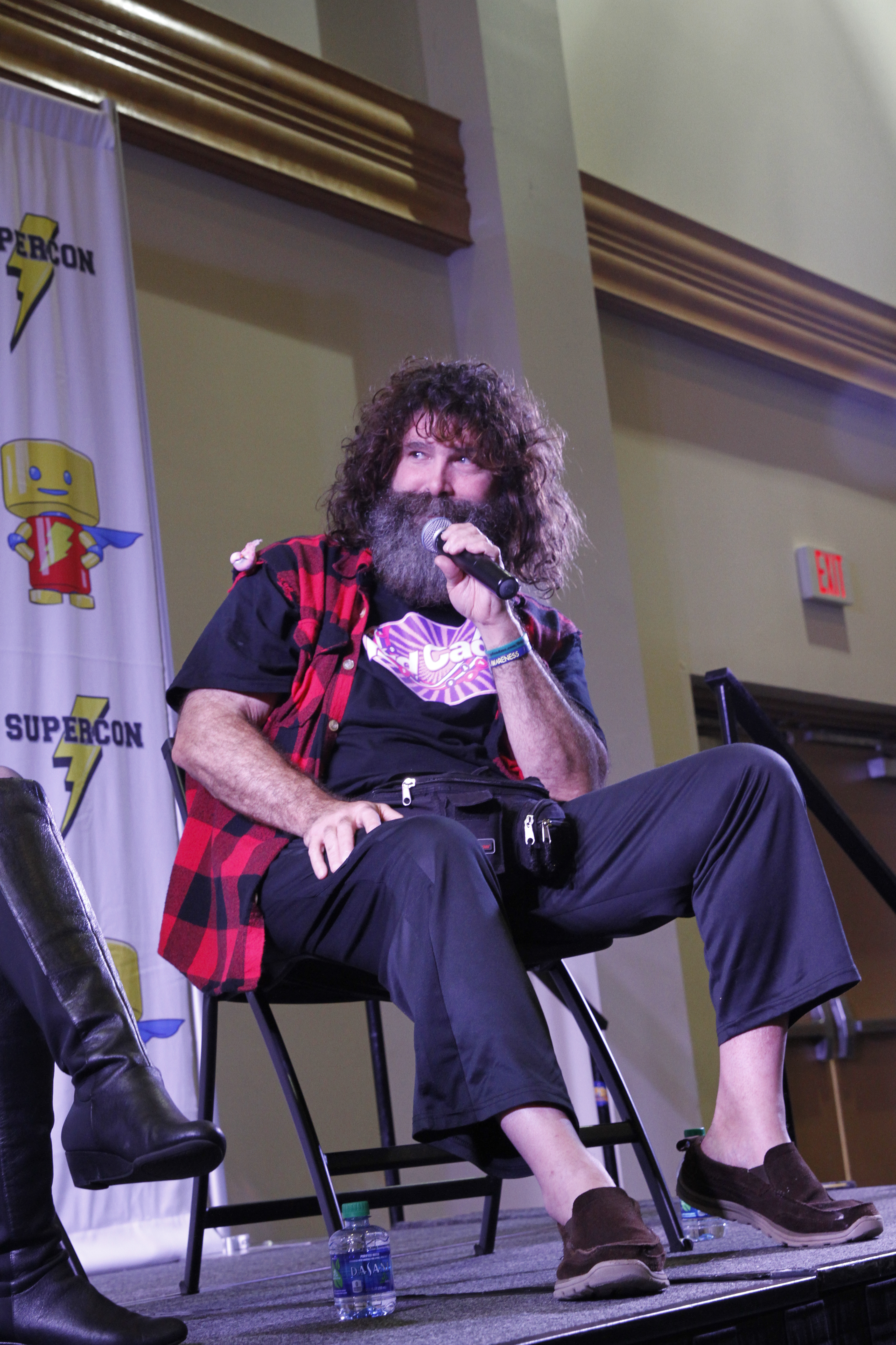 Taken Sunday at Florida Supercon 2016 by Luis Carrion